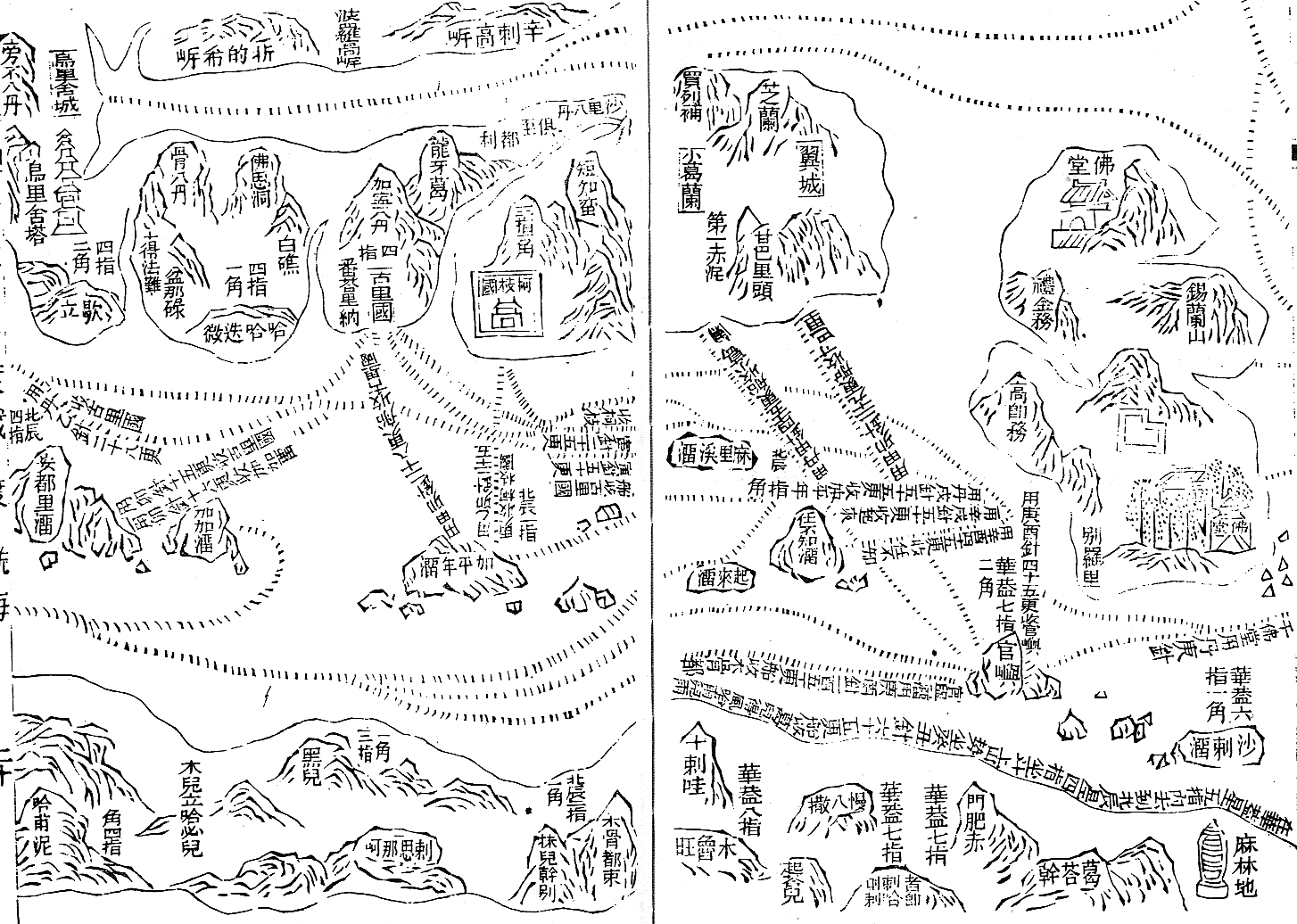 Part of the Wu bei zhi chart of Zheng He showing the west coast of India along the top, Ceylon top right and Africa along the bottom. The sailing directions are shown using zhen lu compass directions.